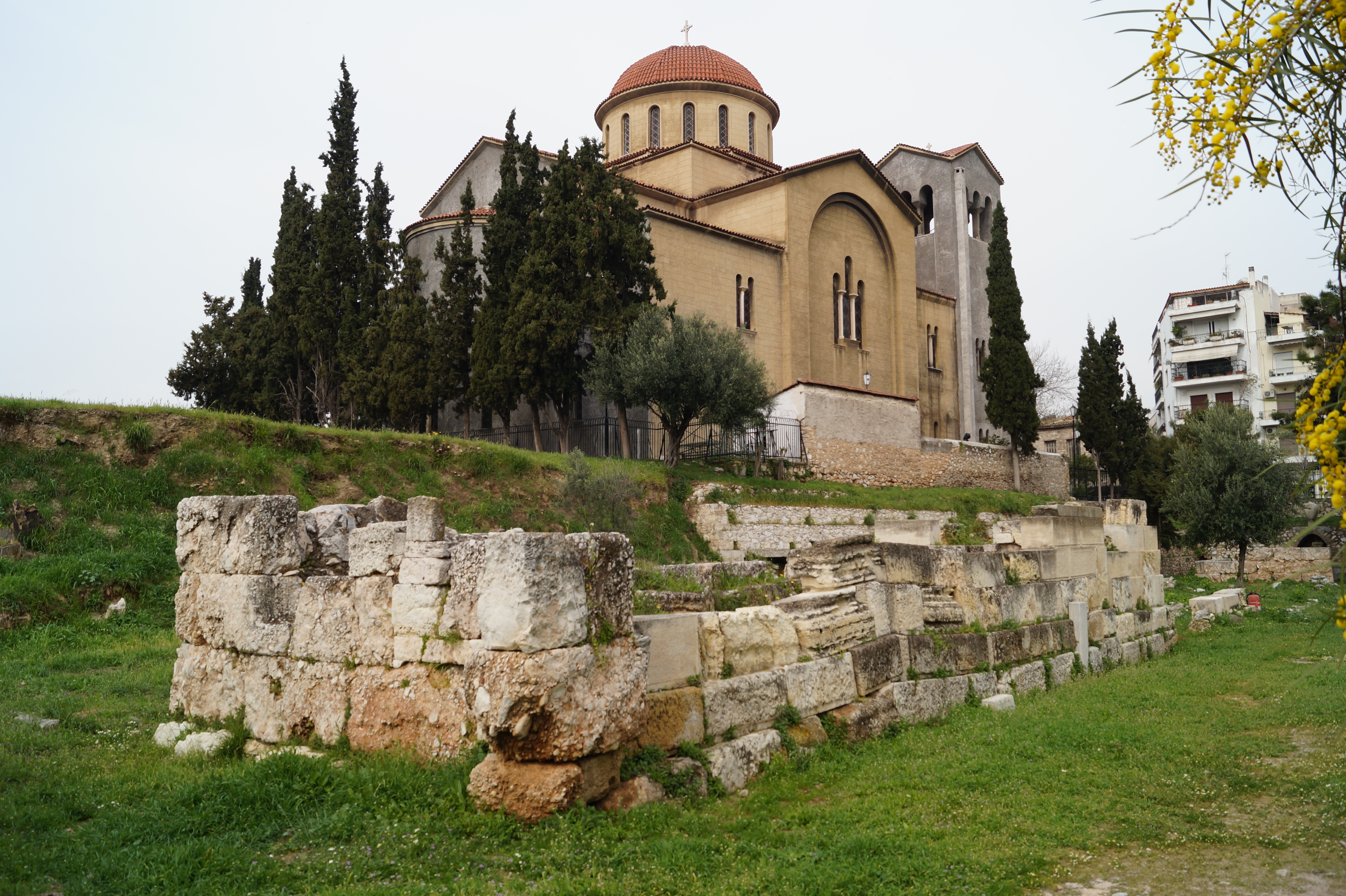 Kerameikos, Athens, Greece: View from east on the Tomb of the Lacedaemonians. In the background there is the church of Agia Triada.